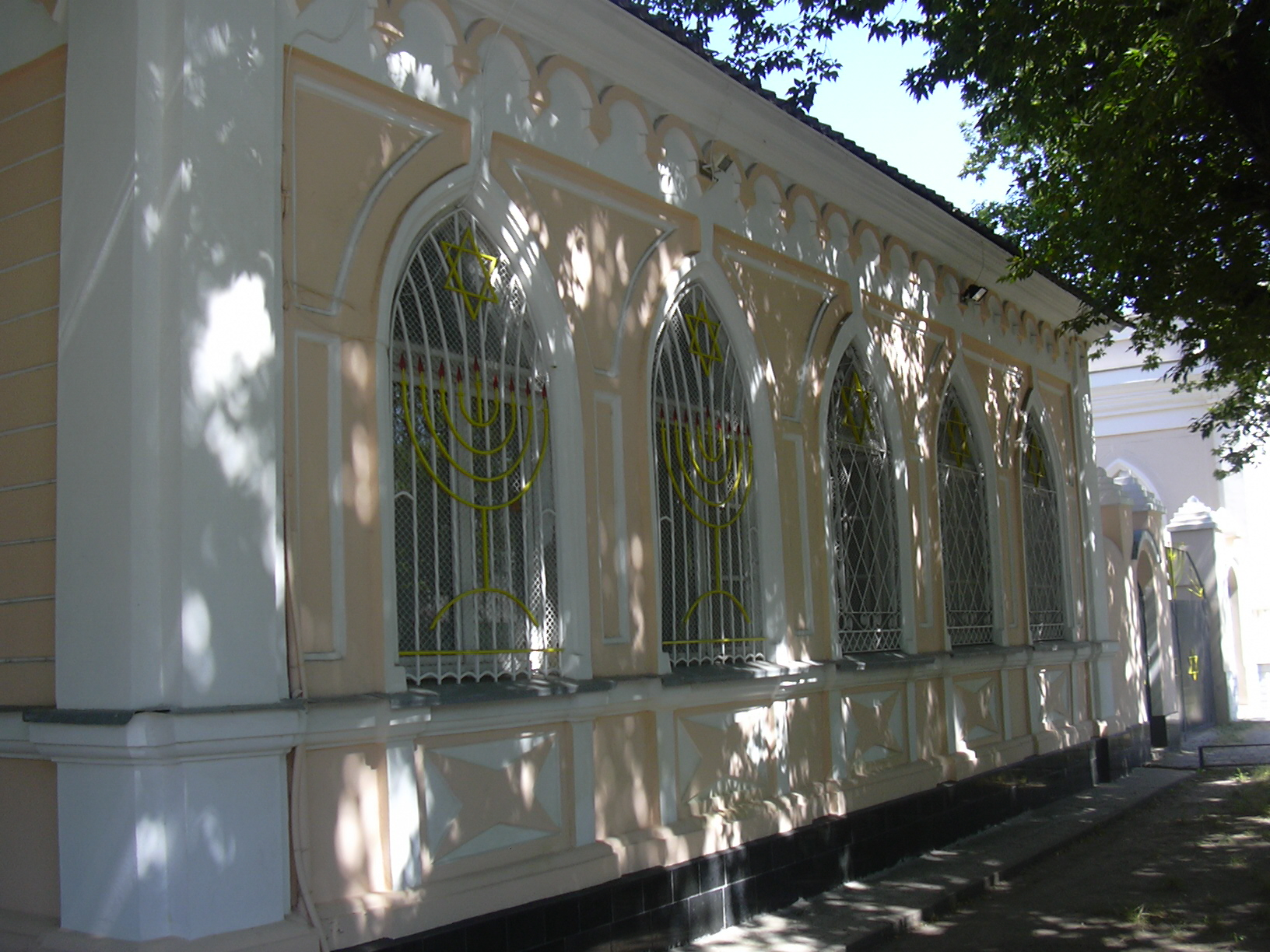 Nikolaev's jewish temple